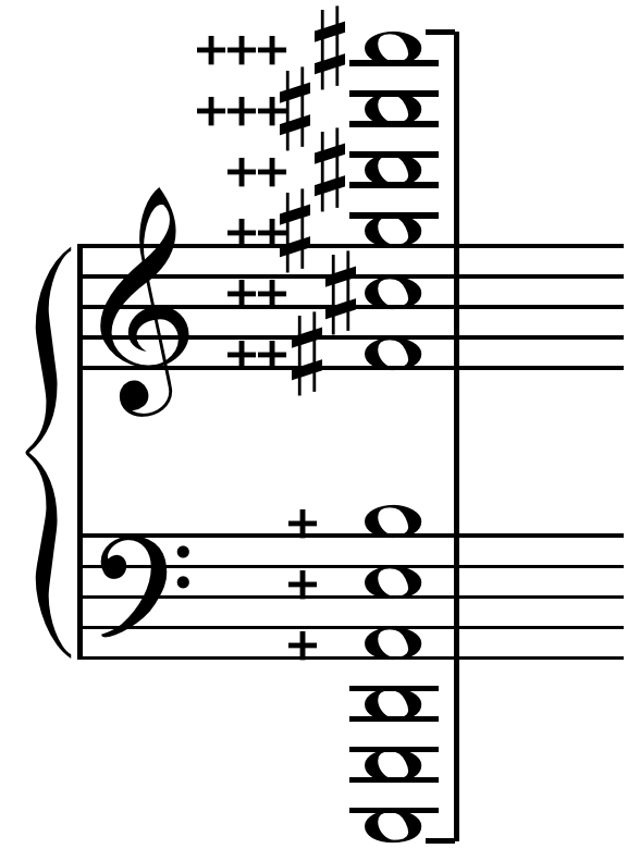 Pythagorean comma.